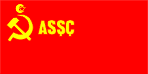 Flag of Azerbaijan SSR since 1930 till 1937